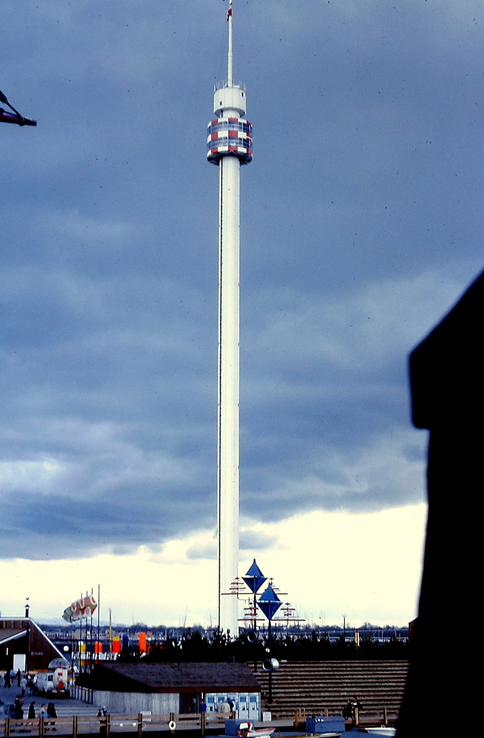 Spirale, Amusement Park La Ronde at Expo 67, in Montreal in 1967